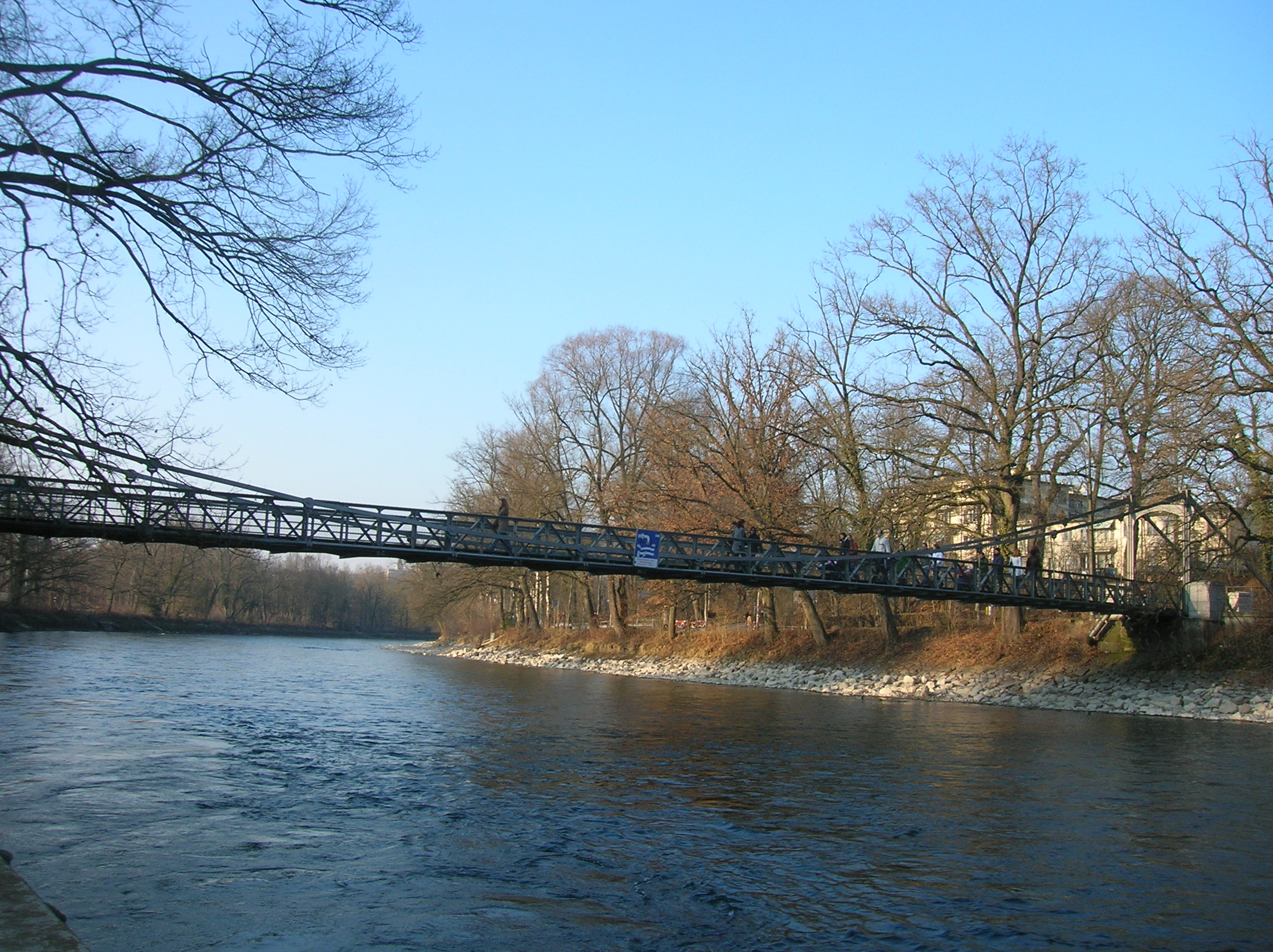 Schönausteg: small bridge which crosses the river Aare in Berne.